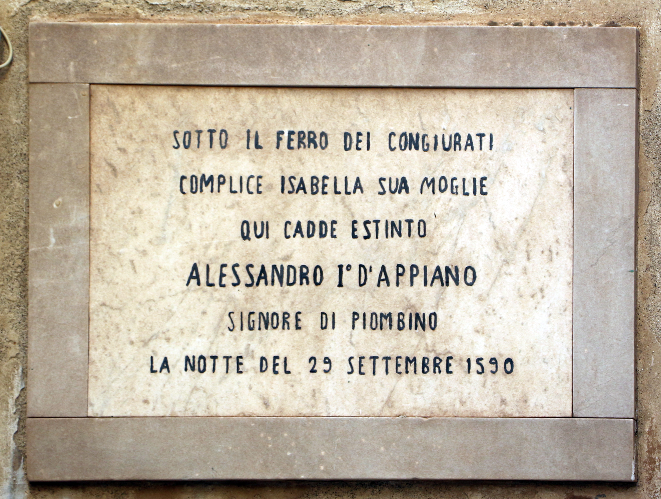 Buildings in Piombino